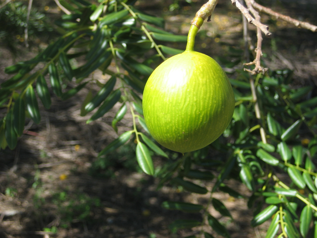 A fruit of Cordyla africana in Machaze district of Mozambique. Local name for the fruit: "Matondo" the tree: "Mutondo"